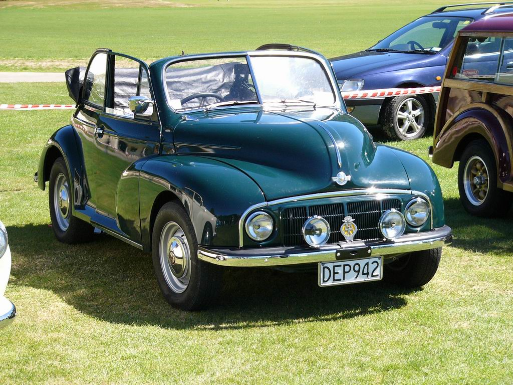 1949 Morris Minor